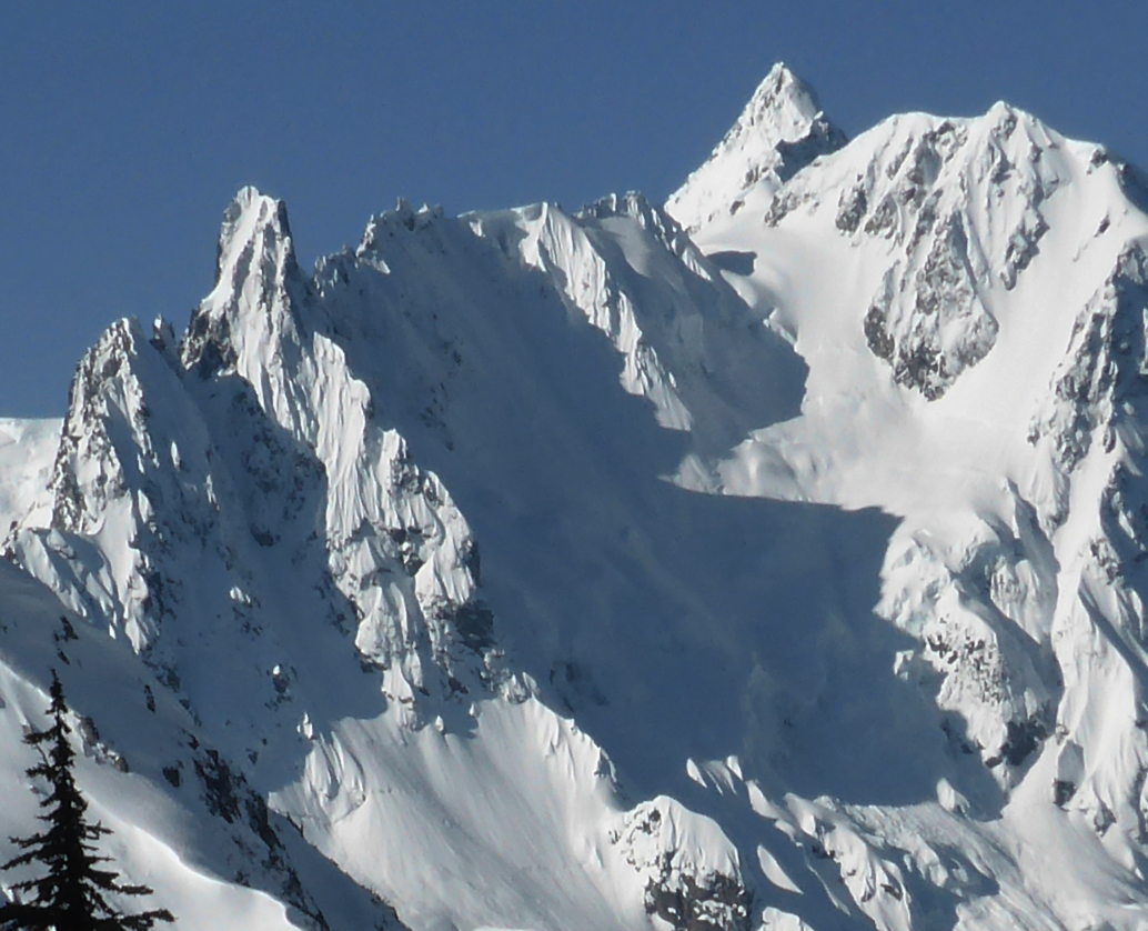 Nooksack Tower and Shuksan summit covered by snow. North Cascades of WA